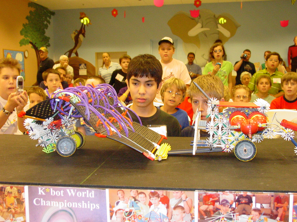 Own photograph, taken July 2005. Source